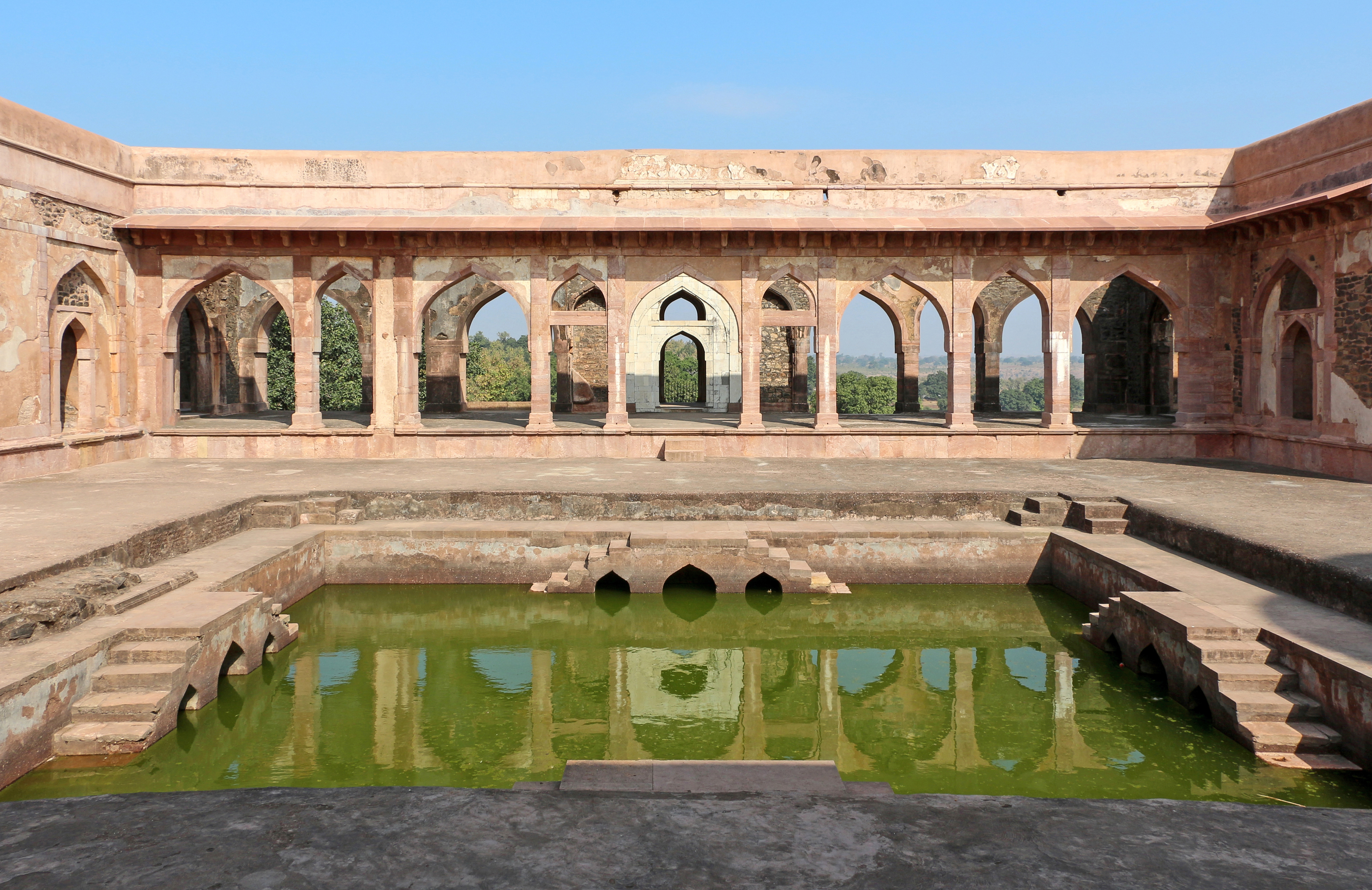 North courtyard (sahn) of the Baz Bahadur's Palace, Mandu, India